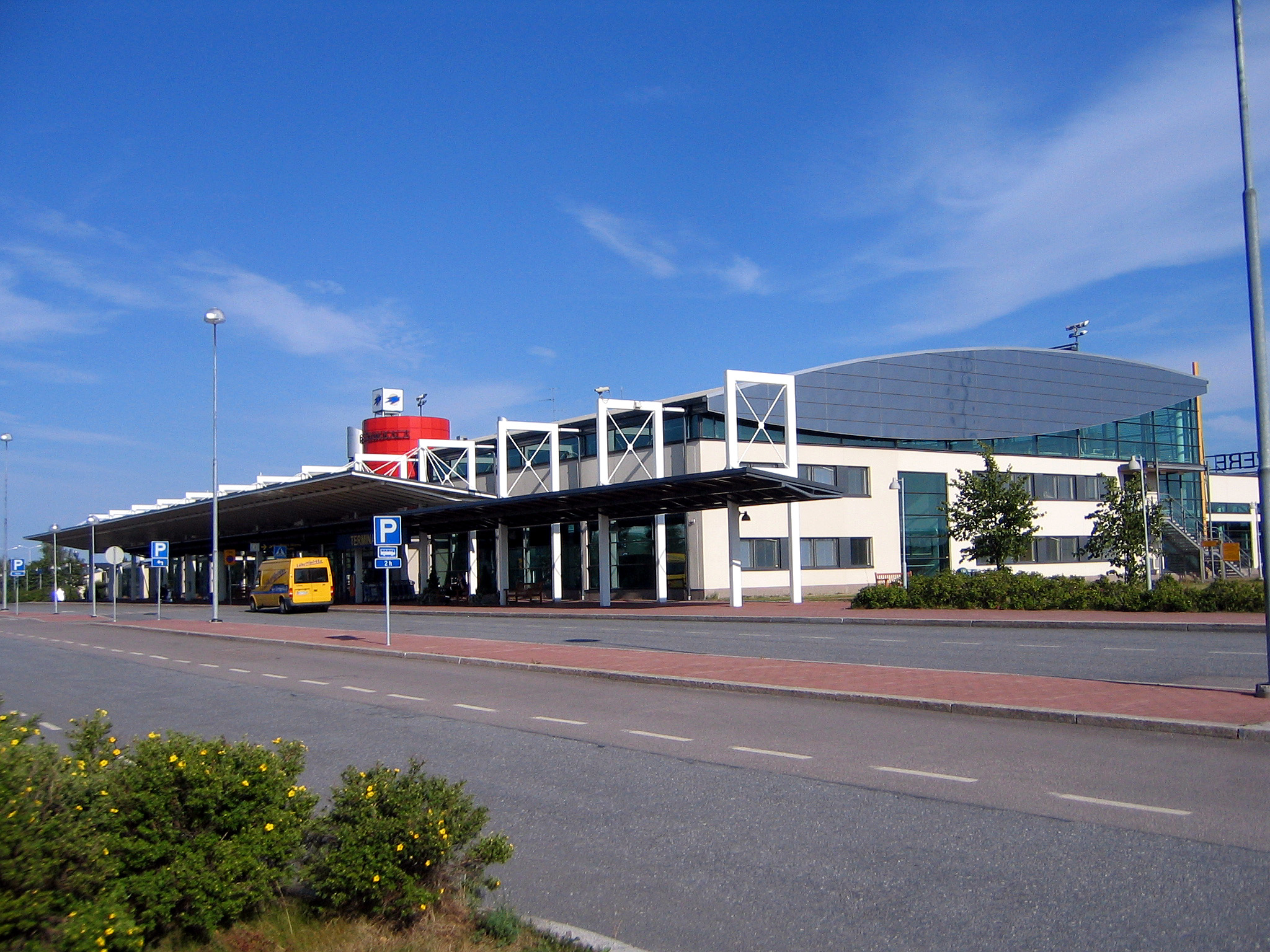 Tampere-Pirkkala Airport Terminal 1 building as seen from the entrance side.